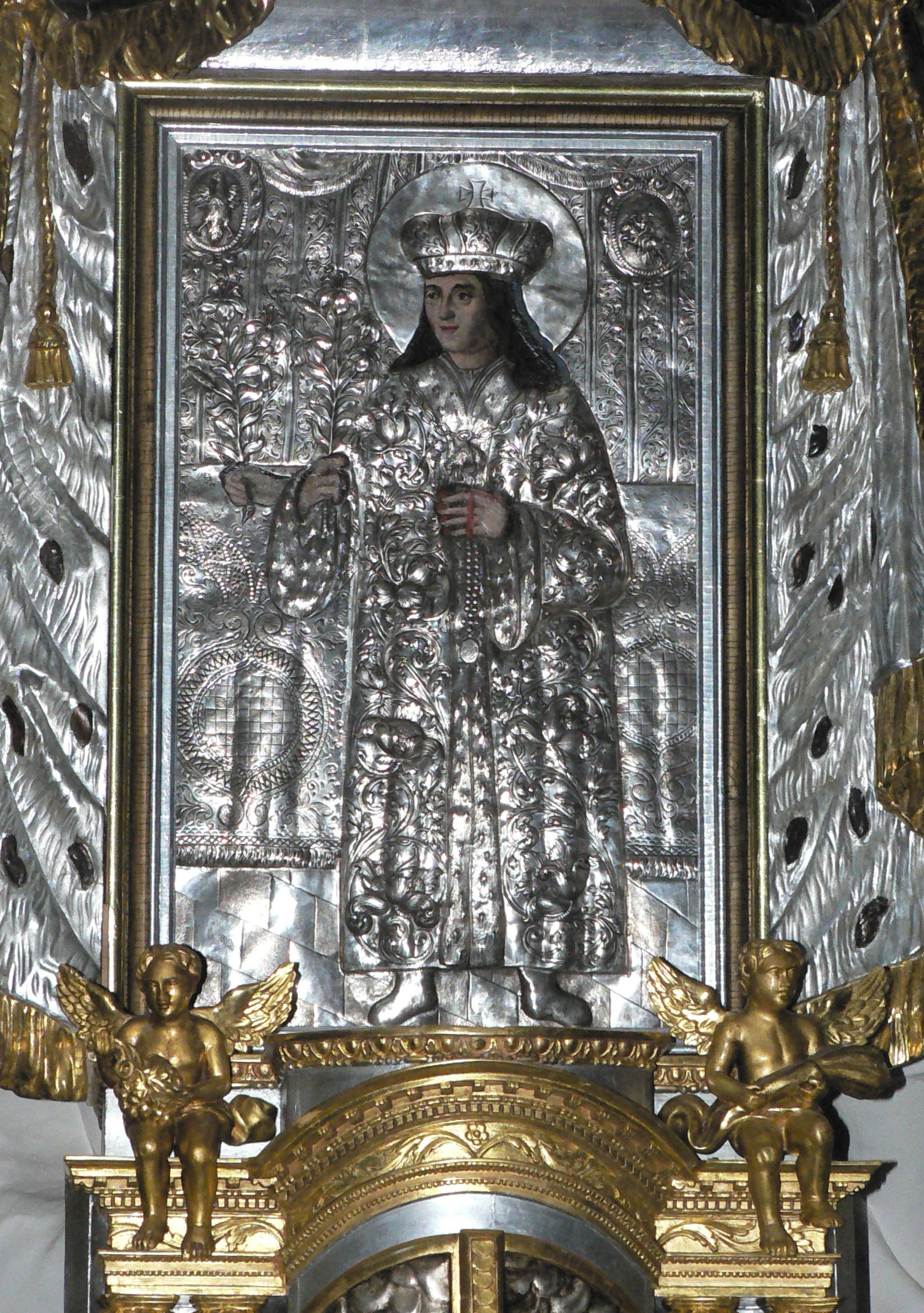 According to legend, the artist attempted to paint over a hand he felt was in the wrong position. However, no matter how many times he attempted to paint over the hand, it would return... Portrait of Saint Casimir in Vilnius Cathedral, Lithuania